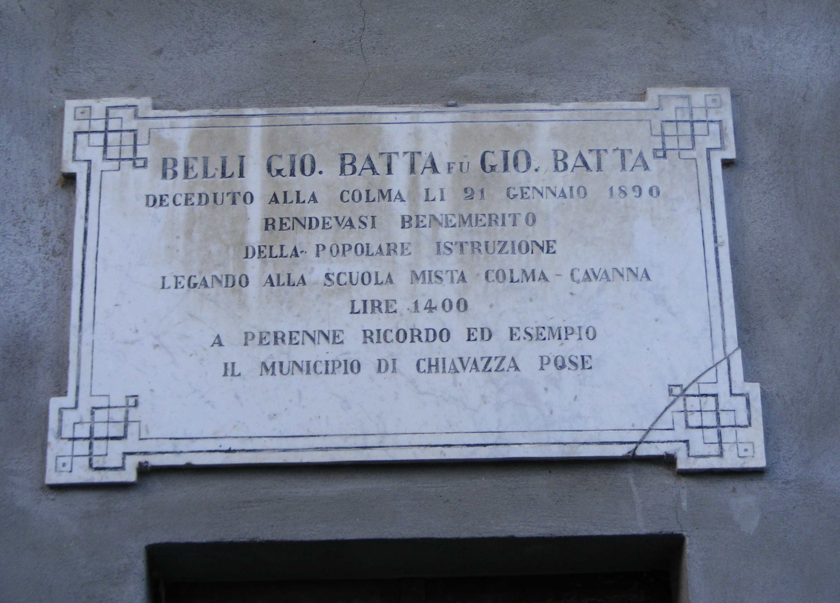 Colma di Andorno (BI, Italy): memorial tablet about the local school